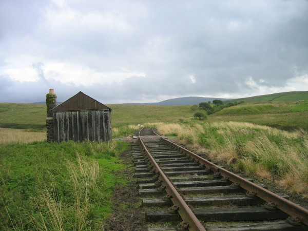 Railway line and platelayers hut at Saughtree Station. We were surprised to see the rail track at Saughtree Station. It ran for about 300 yards to the east and about 200 yards to the west.